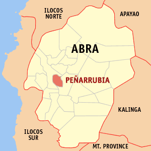 Map of Abra showing the location of Peñarrubia